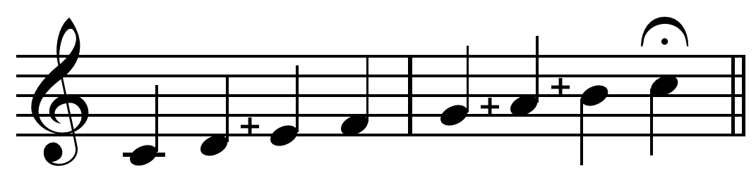 Visual representation of File:Pythagorean diatonic scale on C.mid. Pythagorean diatonic scale on C. + indicates the syntonic comma.